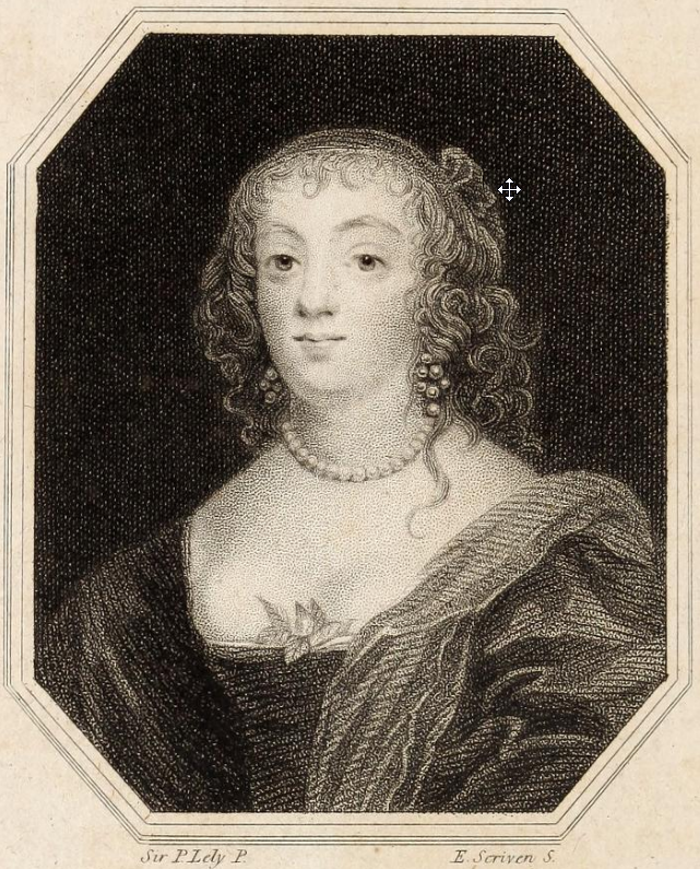 En engraving by E. Scriven of a painting by P Lely of Miss Frances Jennings